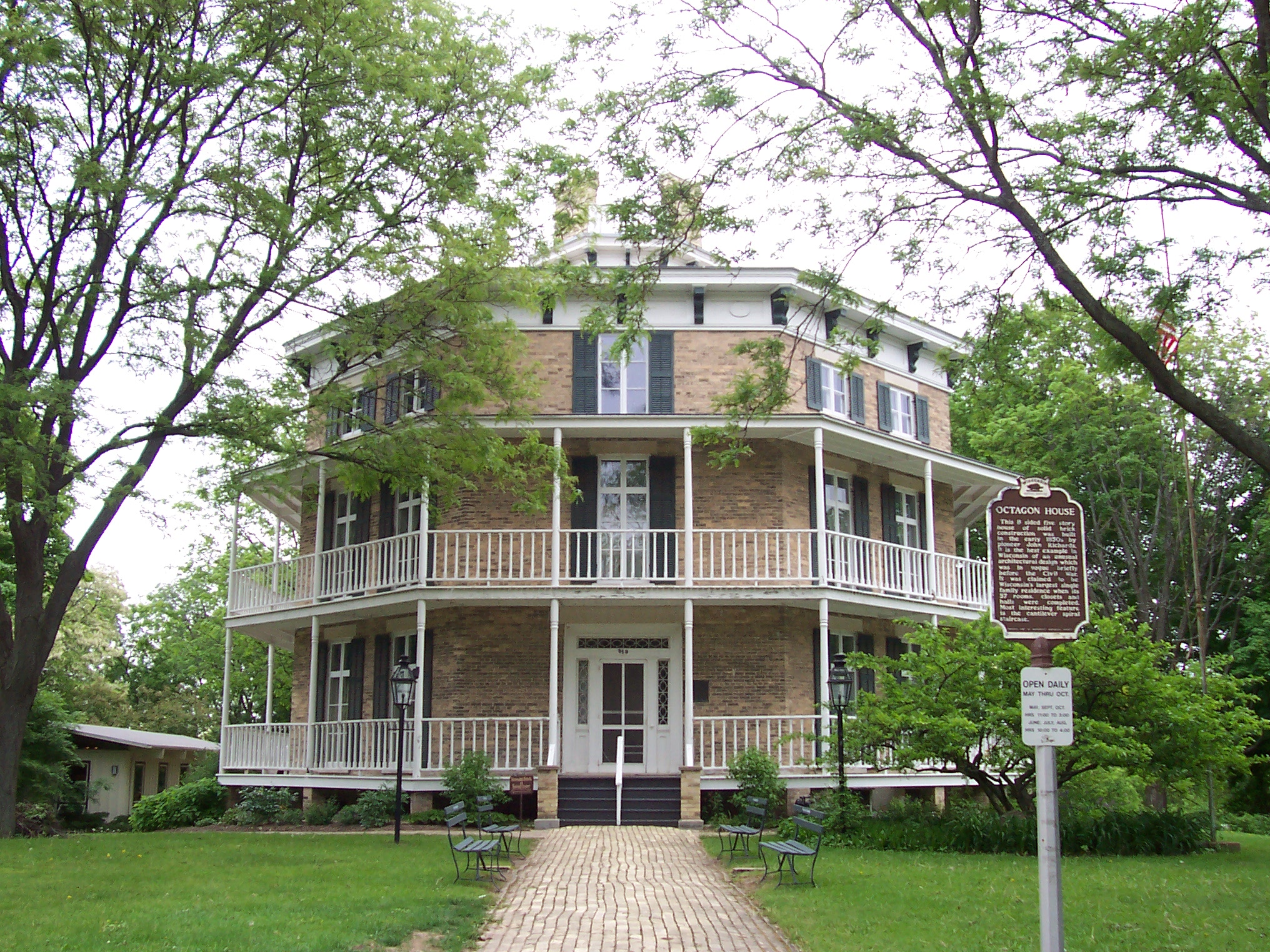 Picture I took of the Octagon House in Watertown, WI.